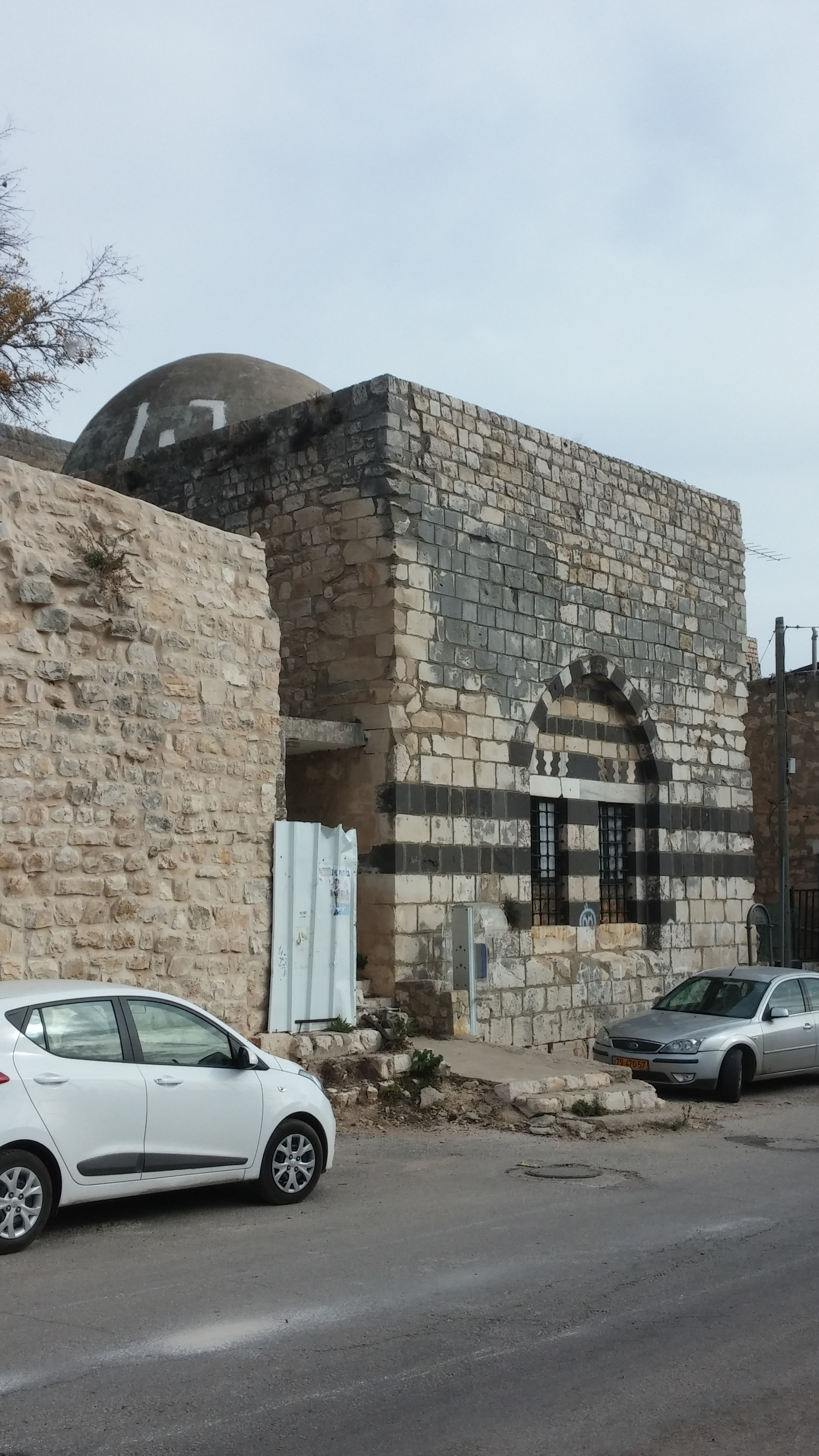 Mamluk Mausoleum in Safed